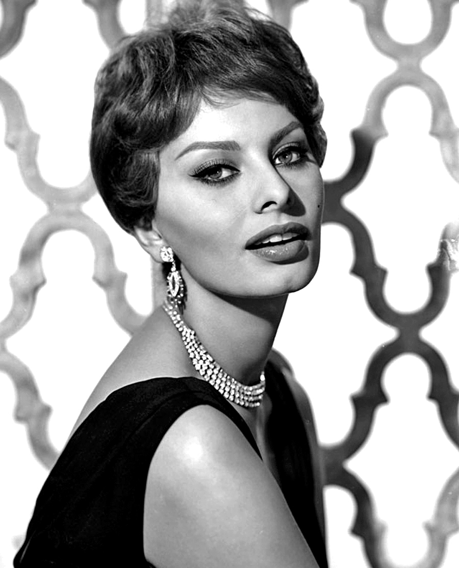 Portrait of Sophia Loren, probably taken for publicity use.